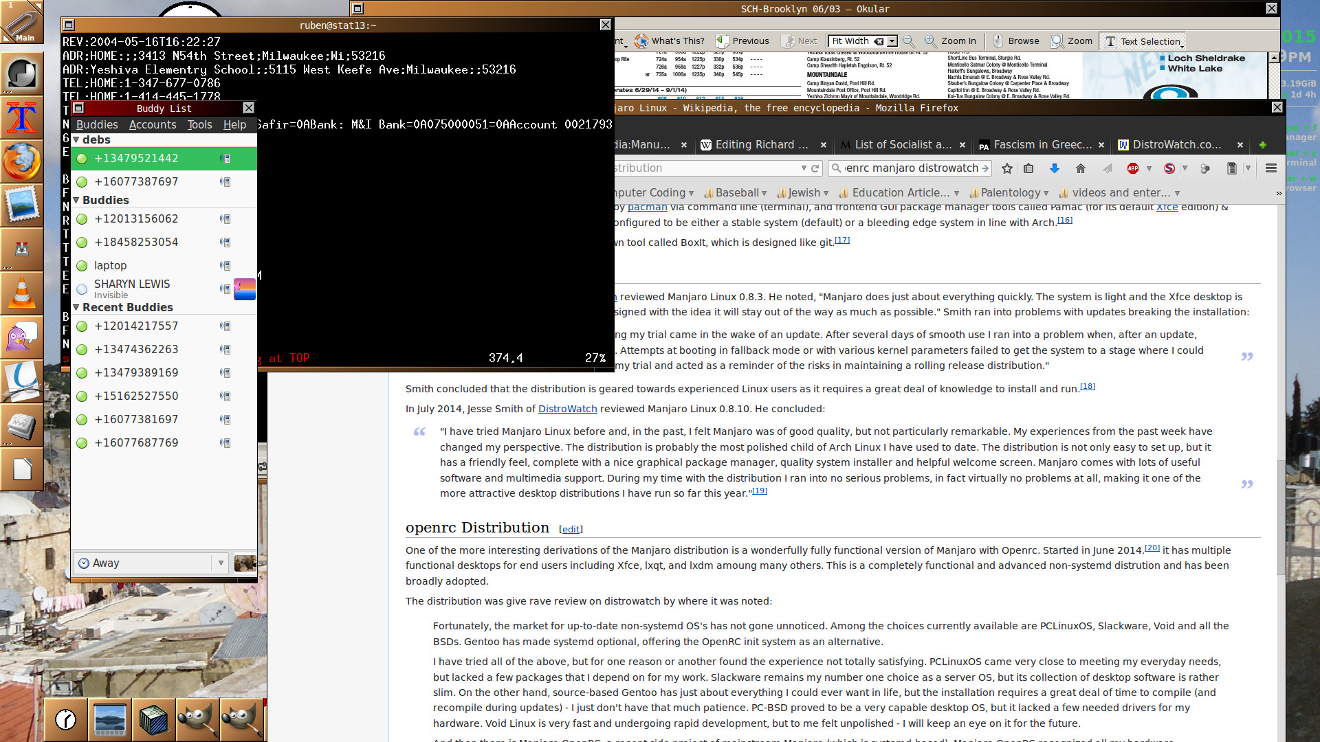 This is an image I took of my desktop which provides a viewer of some idea of the usability of the manjaro openrc desktop